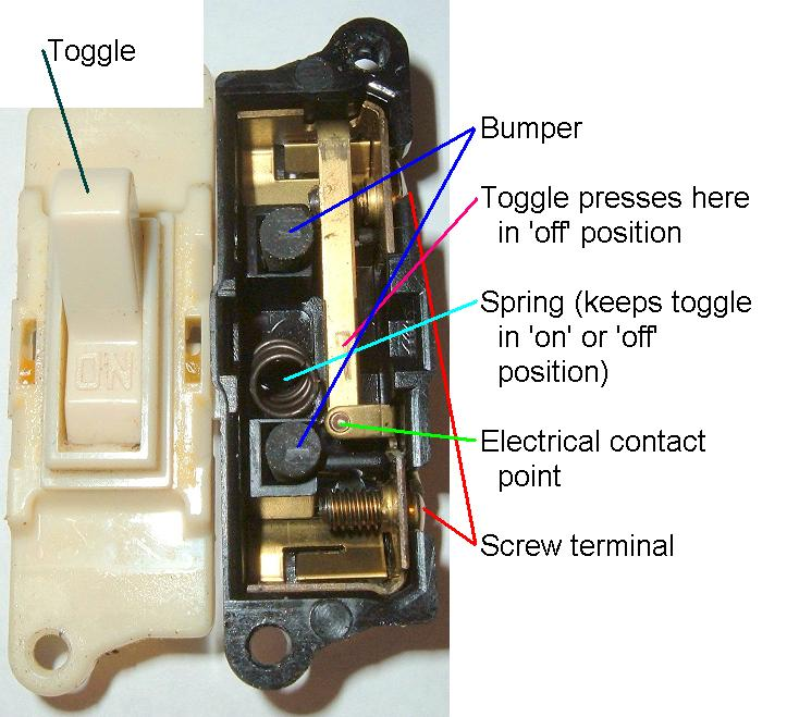 Opened light switch, with explanations